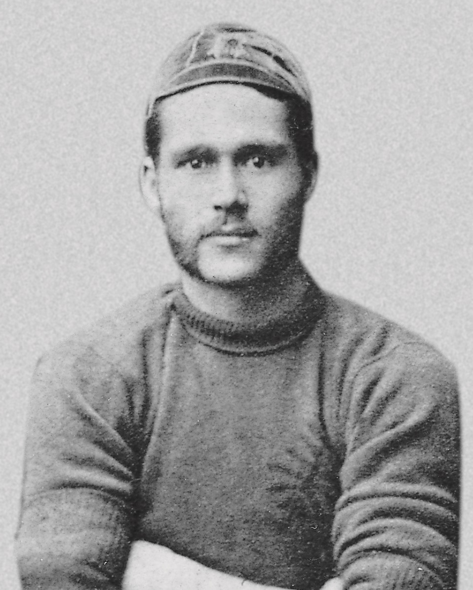 Joseph (Joe) Warbrick (1862-1903) captain of the New Zealand Natives rugby football team.